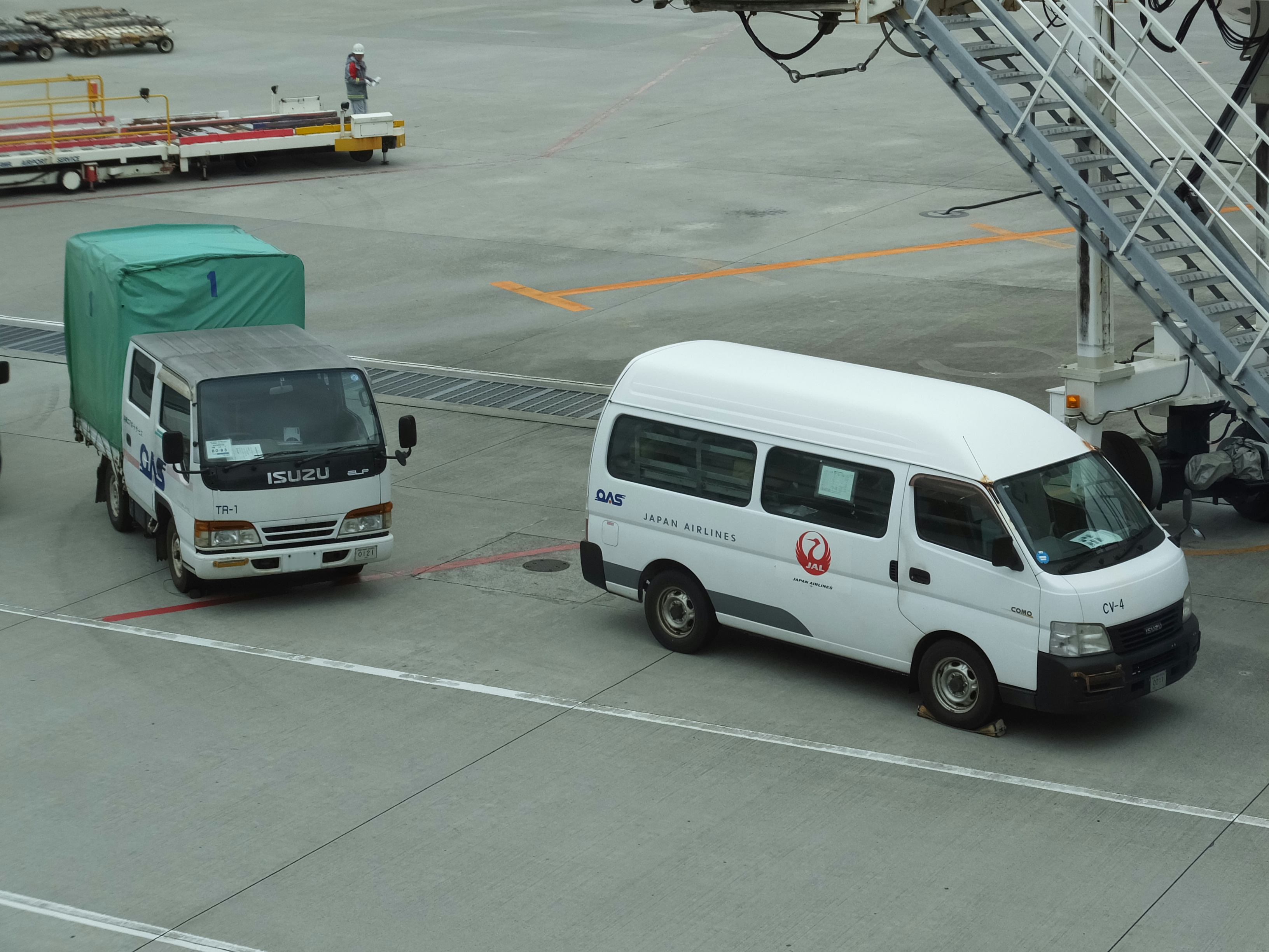 ISUZU, ELF (5th gen.) and COMO, of Okinawa Airport Service Company Vehicles.